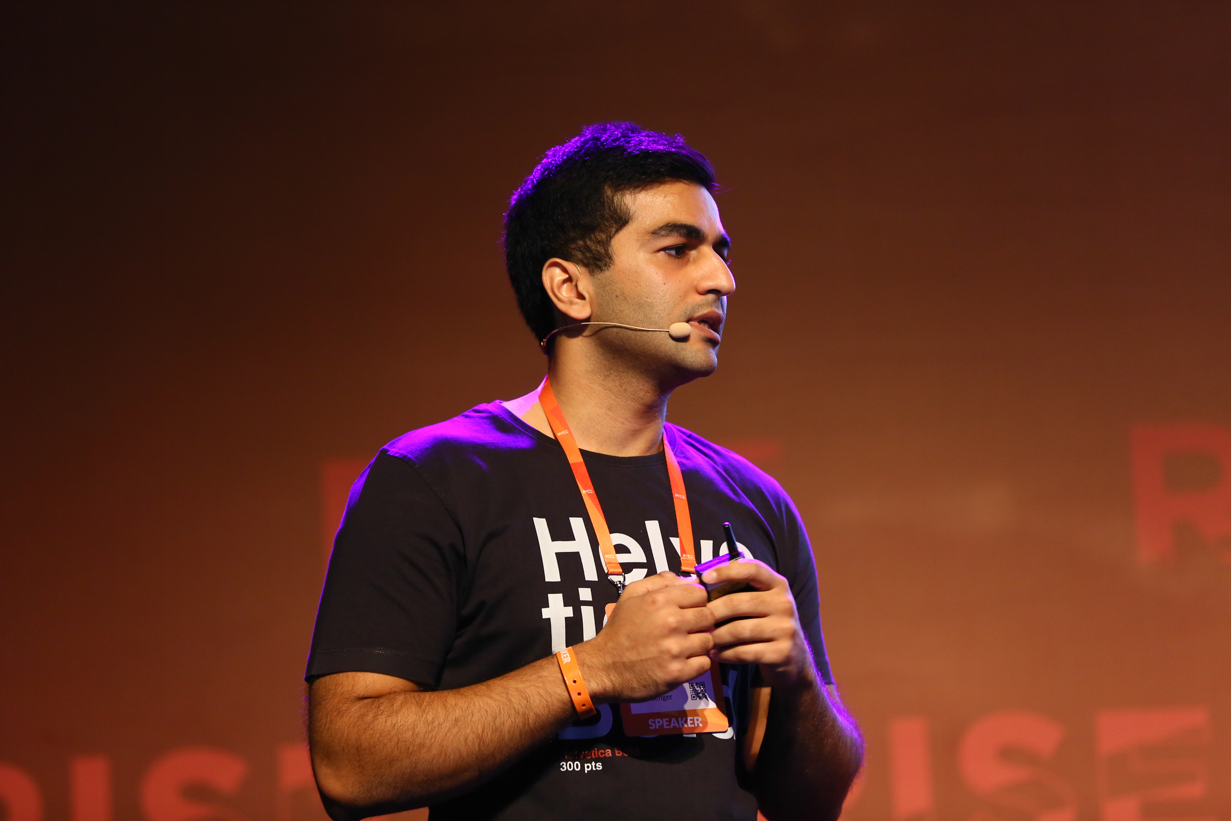 Kavin Bharti Mittal at the Rise Conference 2016